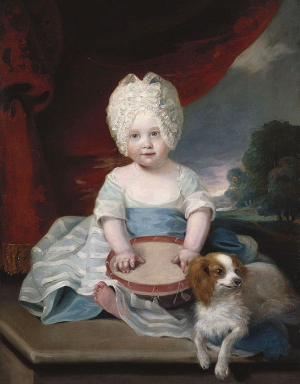 Princess Amelia (1783-1810), youngest daughter of King George III.